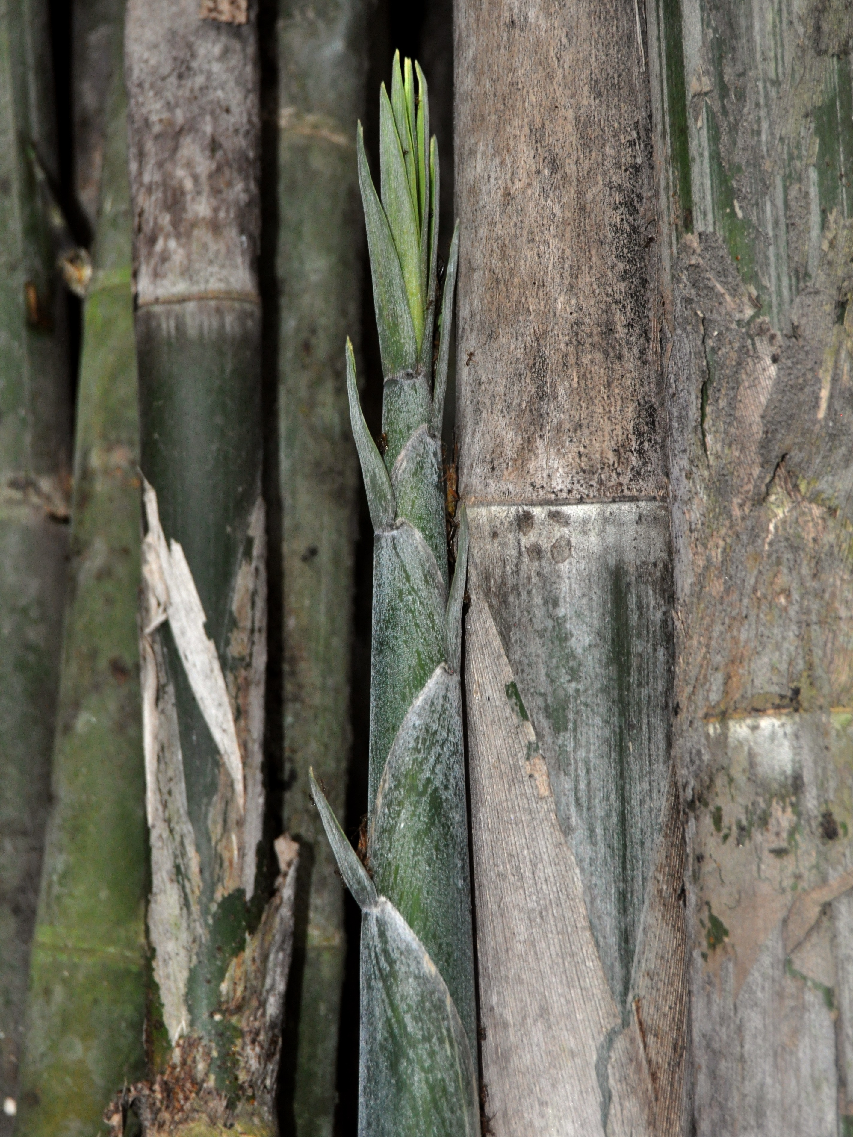 Thai bamboo, Thyrsostachys siamensis, young shoots. From Bogor, West Java, Indonesia.